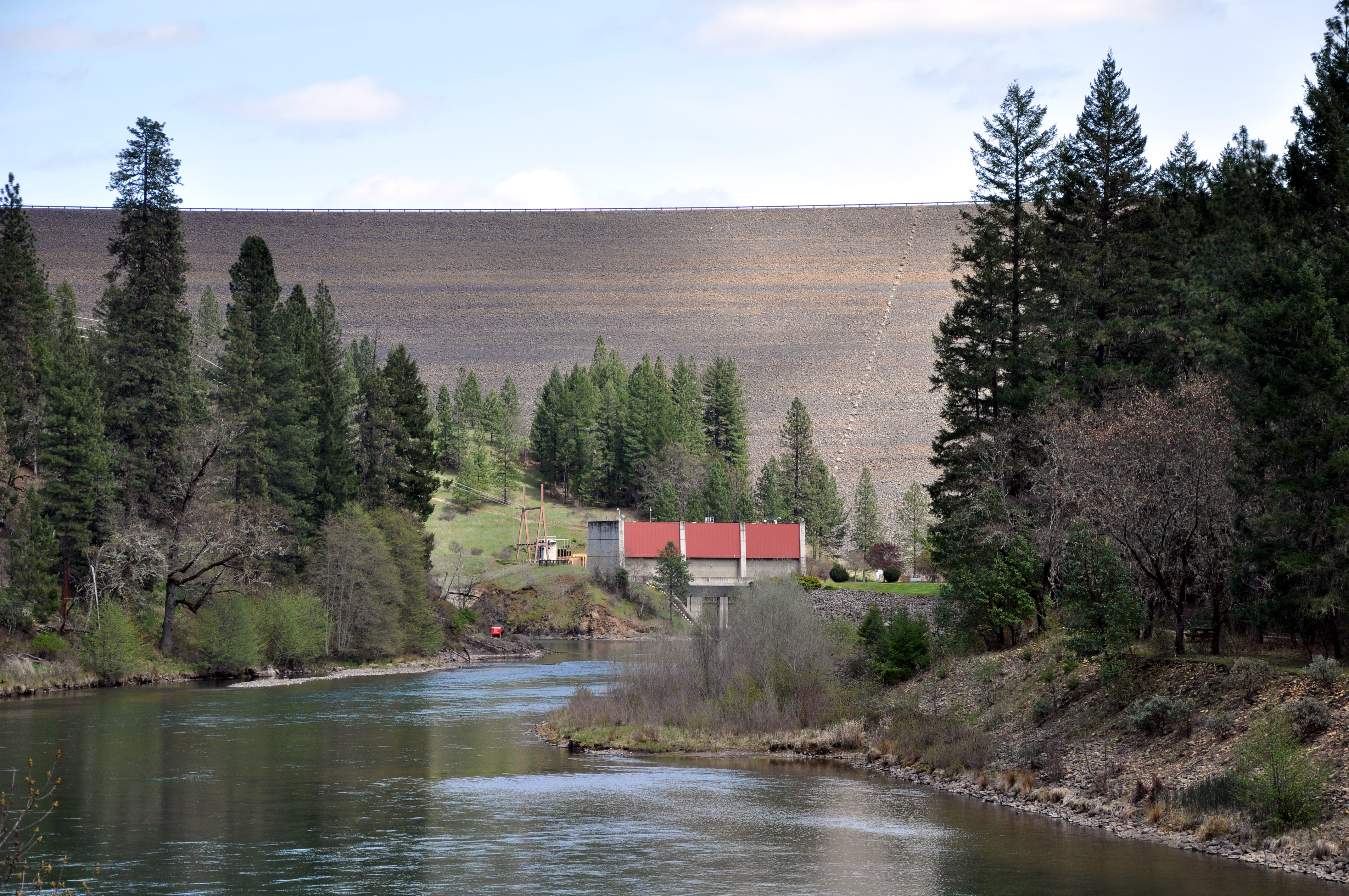 The William L. Jess Dam (Lost Creek Dam) on the Rogue River in the U.S. state of Oregon rises above a powerhouse and the river. The dam, which impounds Lost Creek Lake, is 345 feet (105 m) high and 3,600 feet (1,100 m) long.